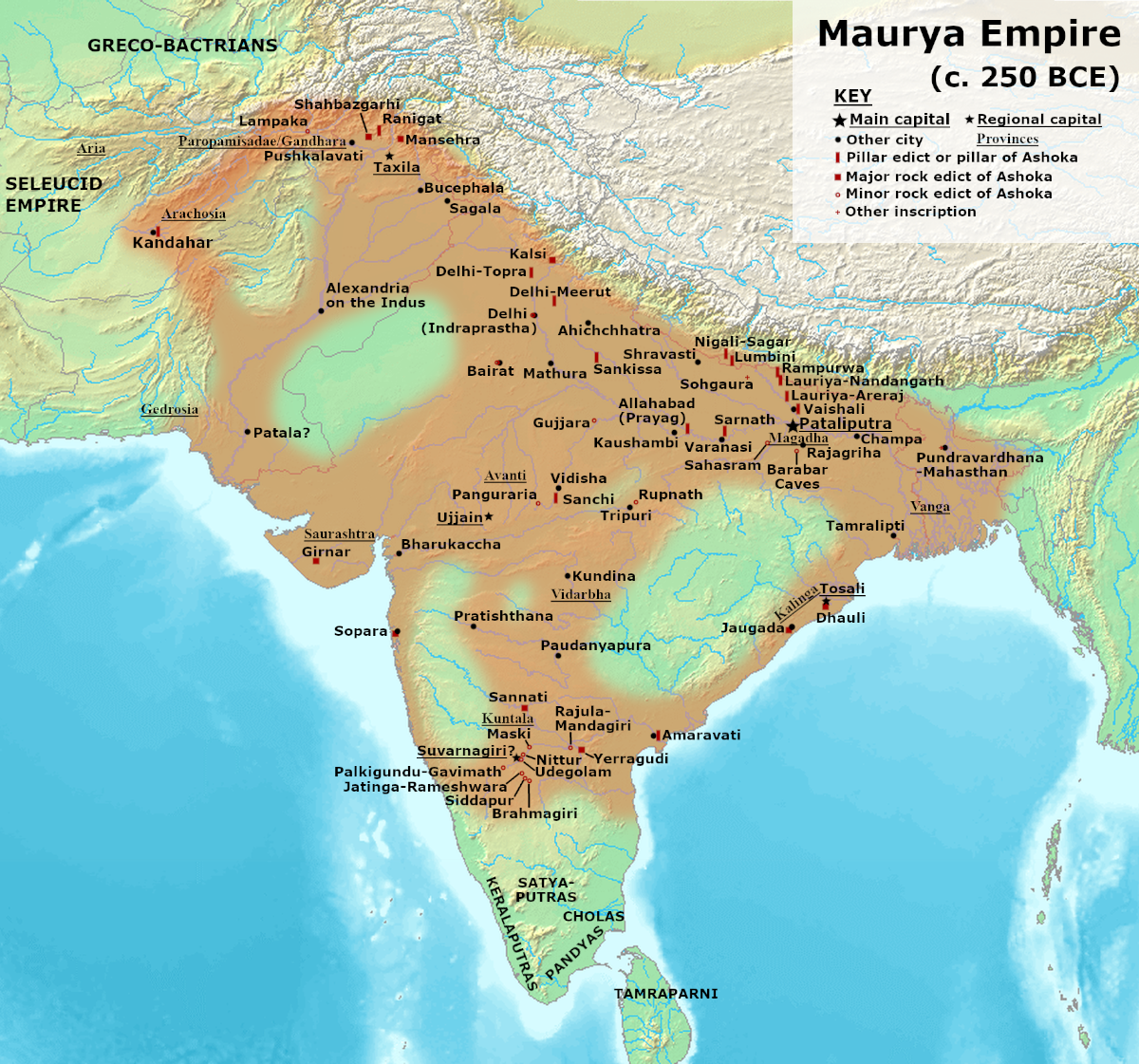 This is based on the map provided on p. 69 of Kulke, H.; Rothermund, D. (2004), A History of India, 4th, Routledge, ISBN 978-0-415-32920-0. According to the authors, the empty areas within the boundaries of the empire were the "autonomous and free tribes". For individual edicts, see also: Schwartzberg, J. E. (1992), A Historical Atlas of South Asia: University of Oxford Press; and According to both Kulke & Rothermund (p. 68-71), as well as Stein (p. 74), large areas, especially in the Deccan peninsula, were probably occupied by fairly autonomous or even unconquered tribes. "The major part of the Deccan was ruled by [Mauryan administration]. But in the belt of land on either side of the Nerbudda, the Godavari and the upper Mahanadi there were, in all probability, certain areas that were technically outside the limits of the empire proper. Asoka evidently draws a distinction between the forests and the inhabiting tribes which are in the dominions (vijita) and peoples on the border (anta avijita) for whose benefit some of the special edicts were issued. Certain vassal tribes are specifically mentioned." (Raychaudhuri & Mukherjee pp. 275-6) See also --Stein, Burton (1998). A History of India (1st ed.), Oxford: Wiley-Blackwell. --Raychaudhuri, H. C.; Mukherjee, B. N. (1996). Political History of Ancient India: From the Accession of Parikshit to the Extinction of the Gupta Dynasty. Oxford University Press. Background from Made with GIMP